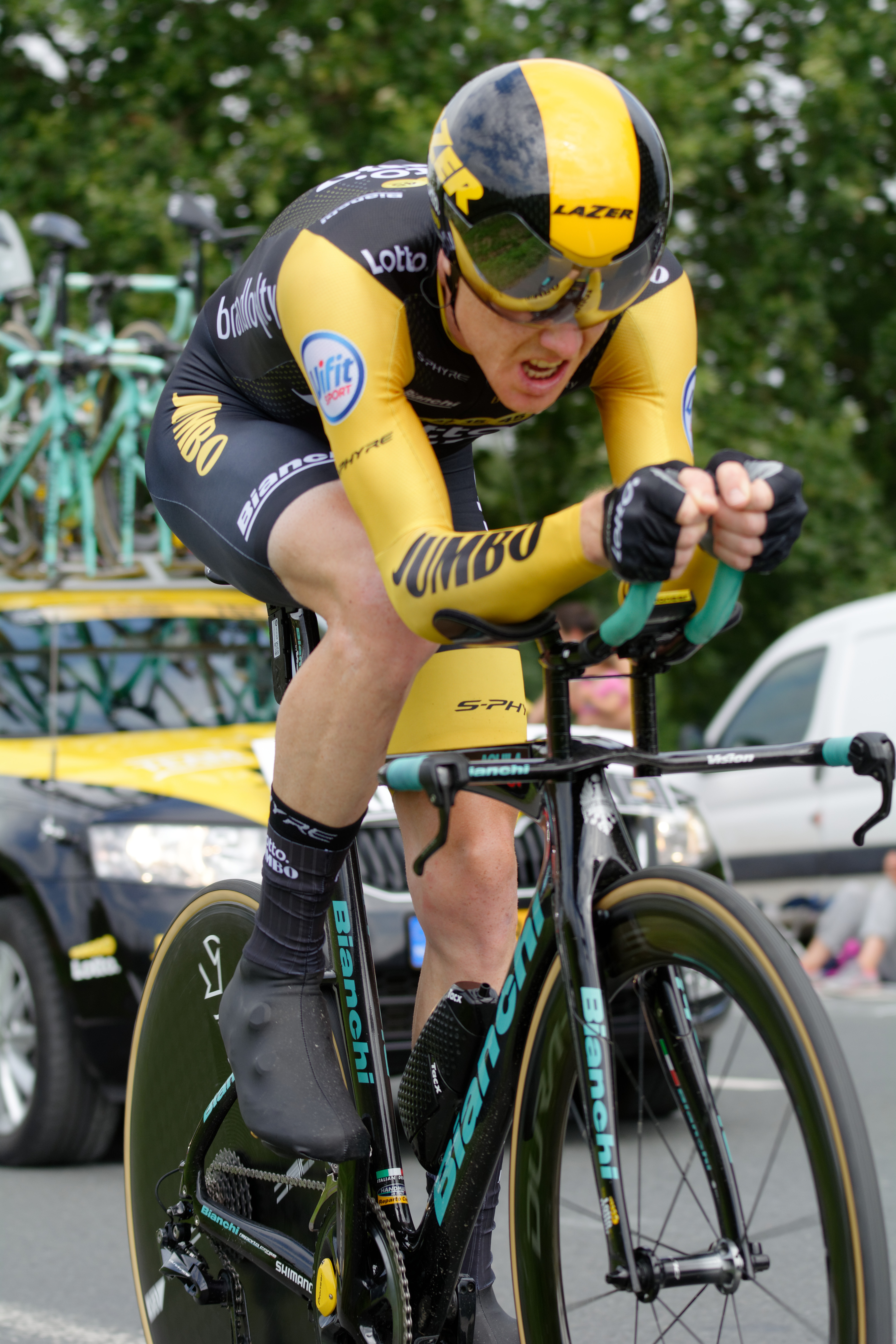 2018 Tour de France